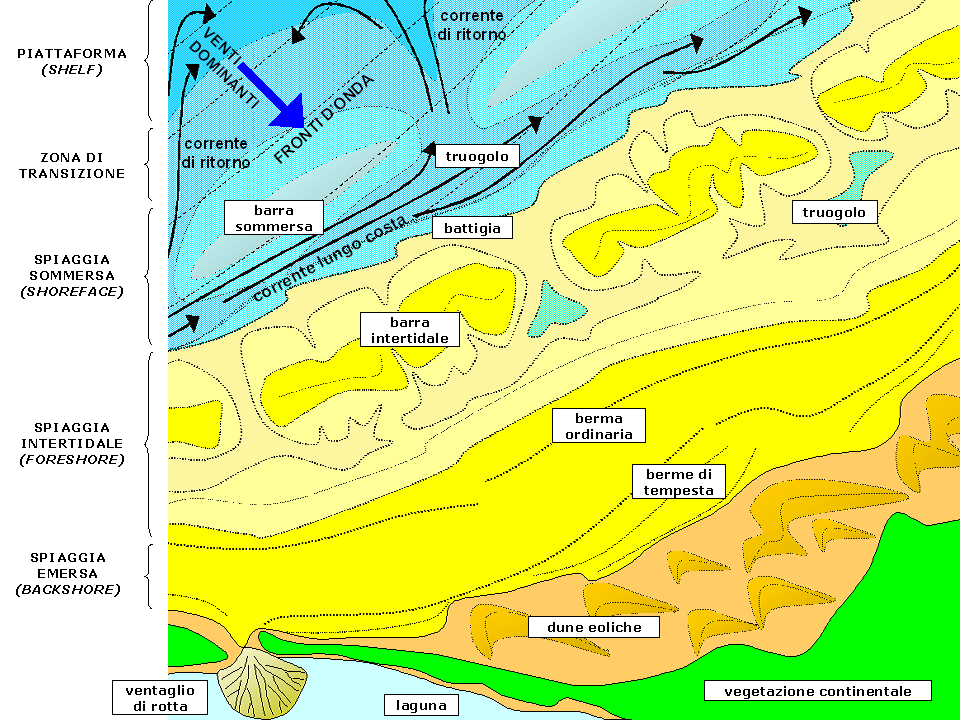 Sketch-map of a beach context (low-tide stage).